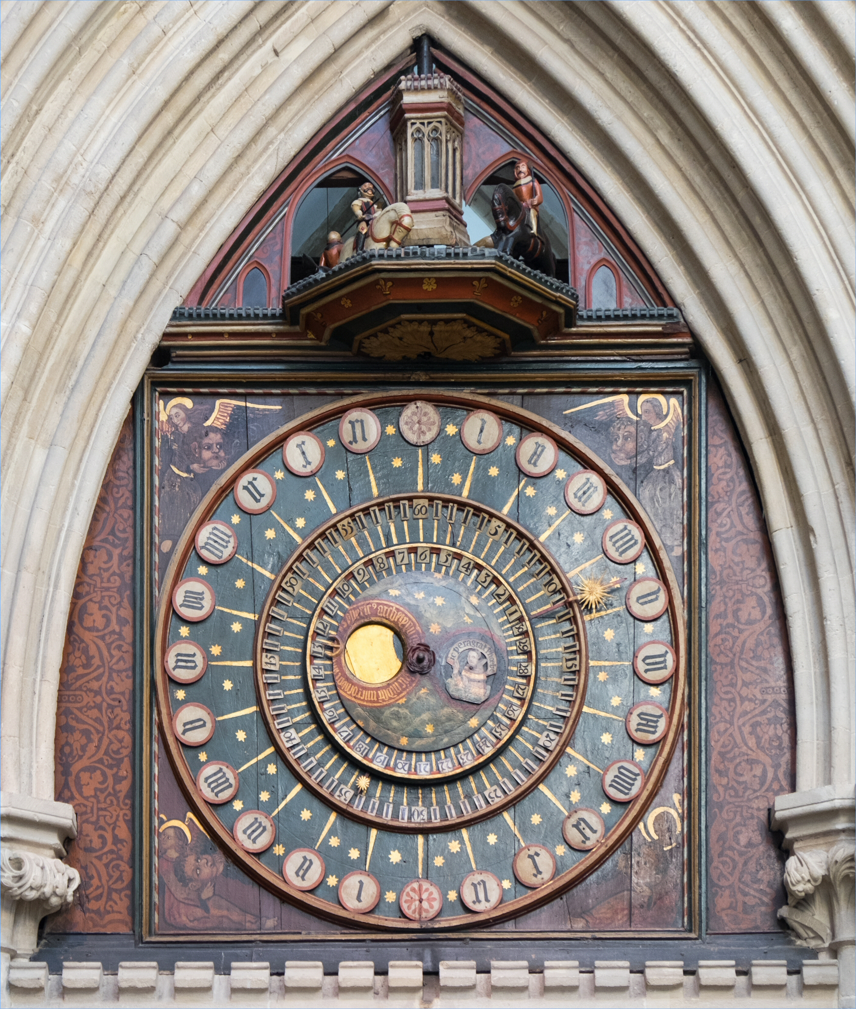 The Wells clock in Wells Cathedral, Somerset. This clock was made in about 1390 and is the world's oldest known clock with its original dials.